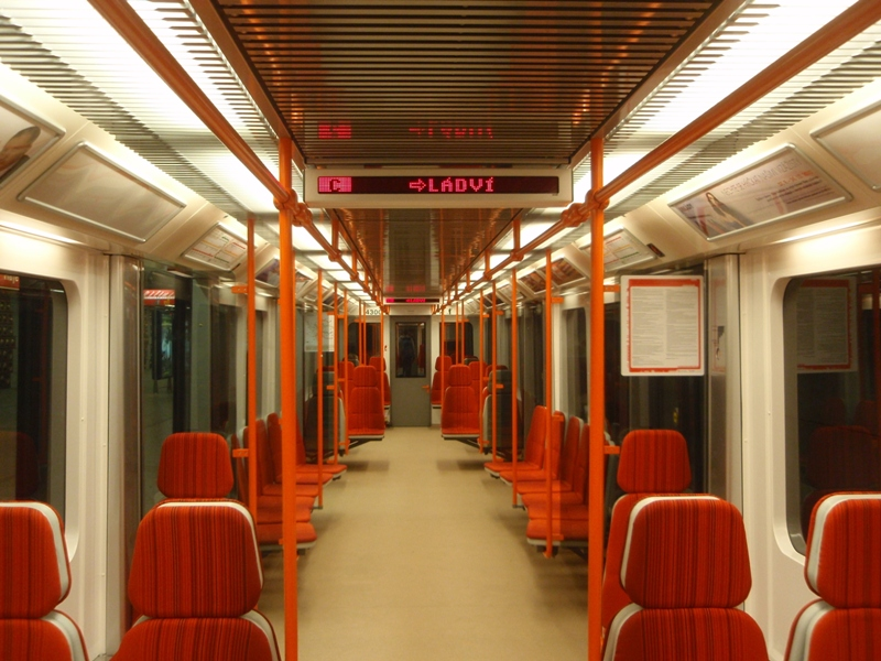 Interior of Metro M1 type, Prague